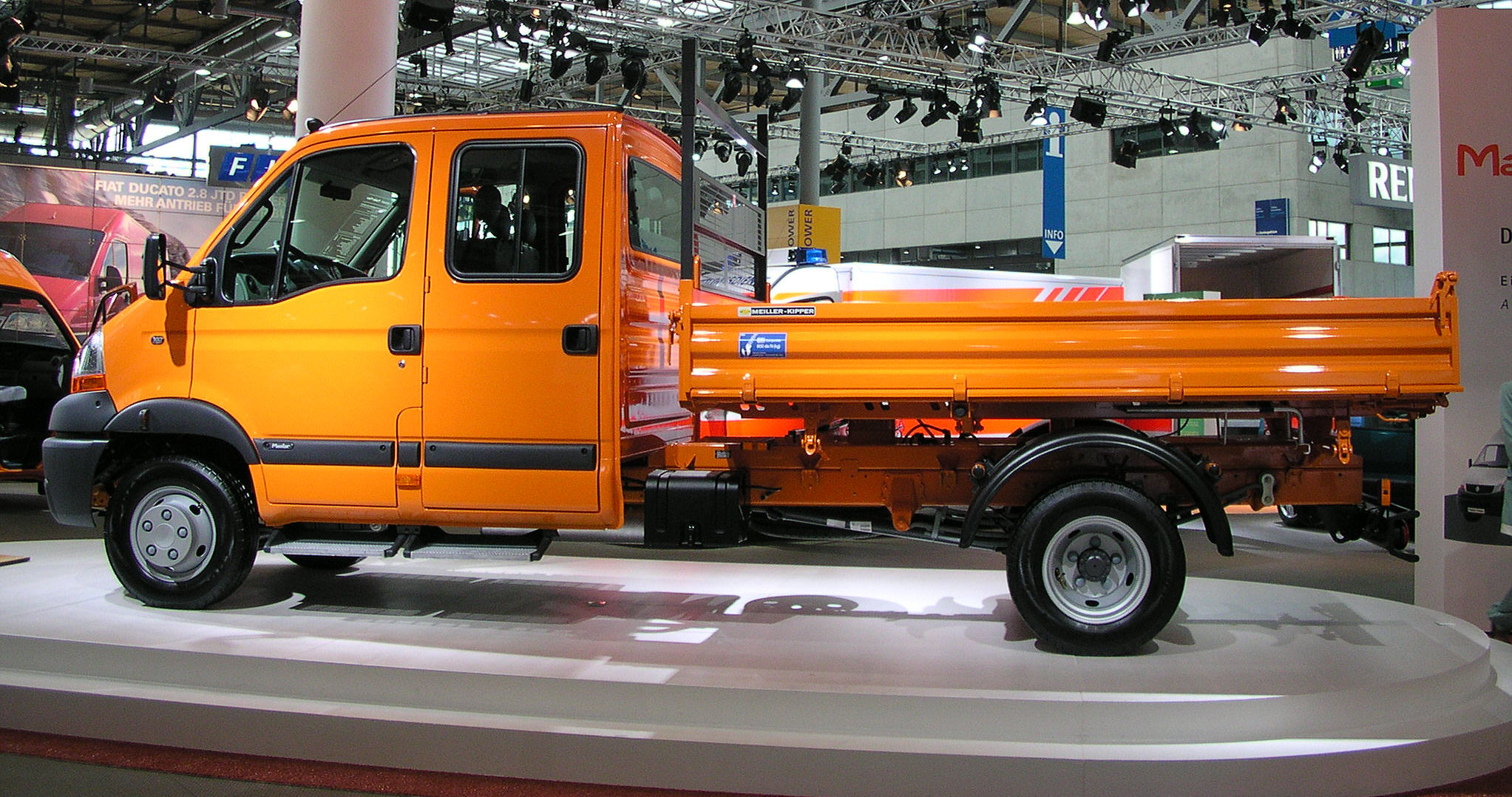 Renault Mascott in sale like Renault Master (or Renault Master Maxi). IAA Hannover 2004.